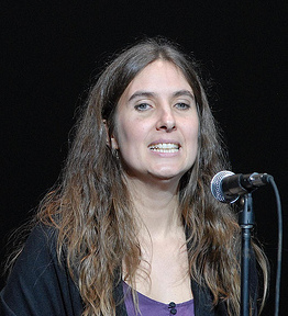 Portrait of screenplay writer Laura Santullo at the Guadalajara Film Festival in 2008